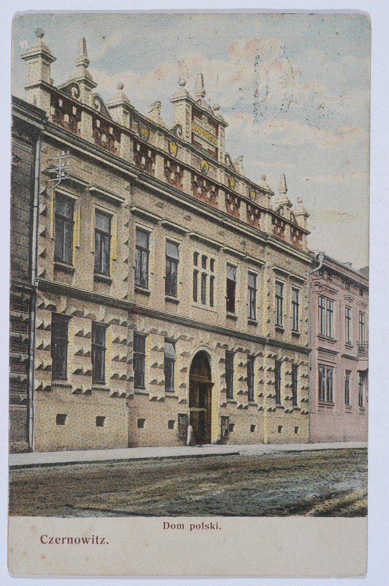 Czernowitz, dom polski (1910)